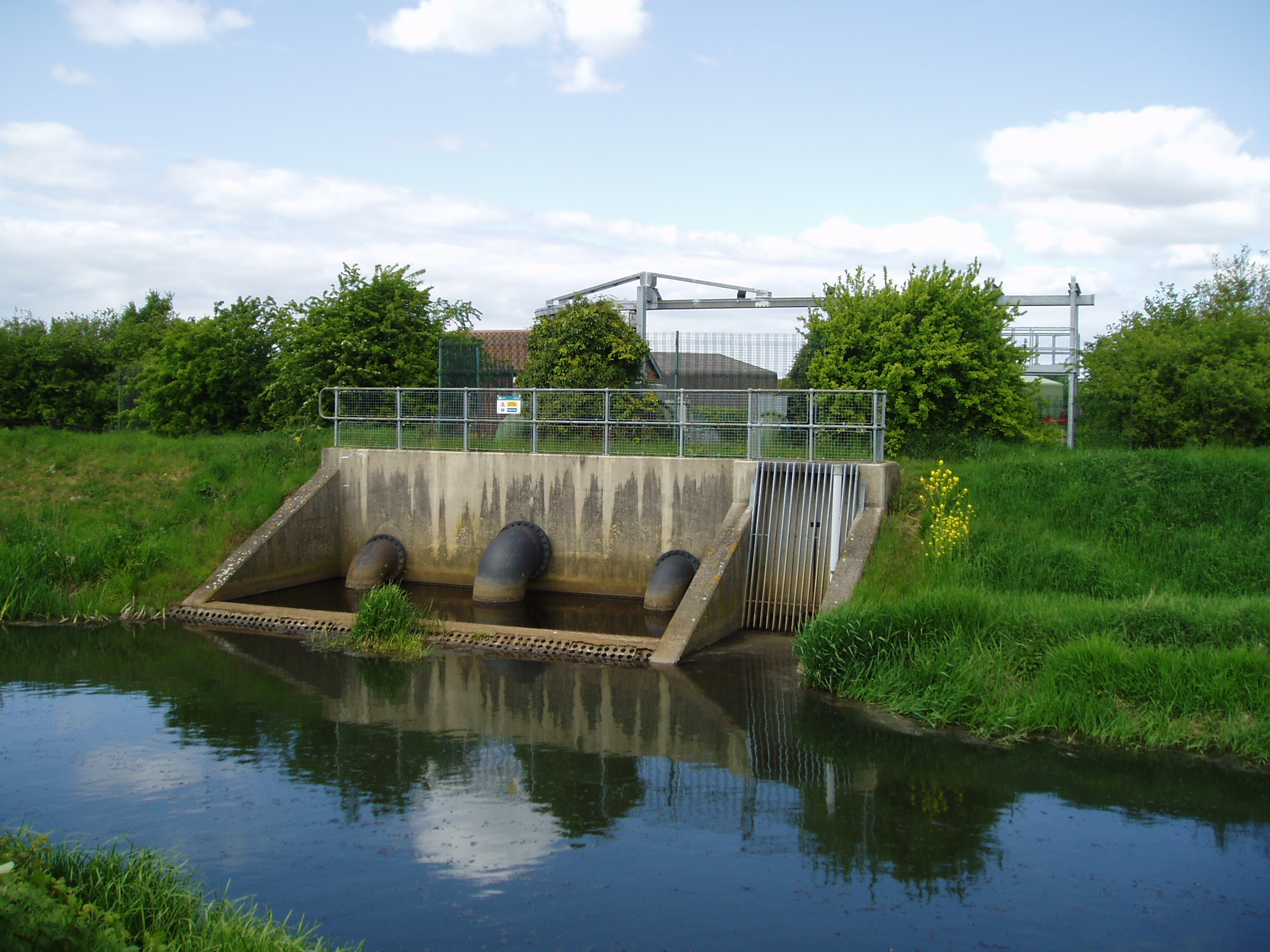 The outlet from Candy Farm North pumping station into the River Torne, South Yorkshire